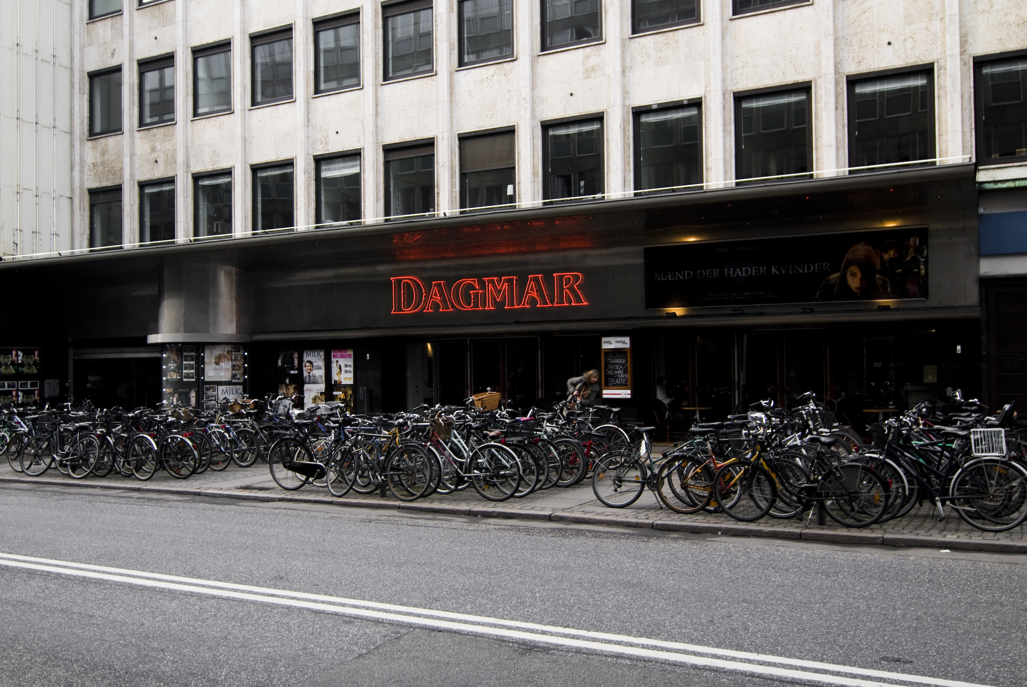 The cinema Dagmar Teatret. This photo was uploaded as a part of an conceptual idea: FindVej NoPic.